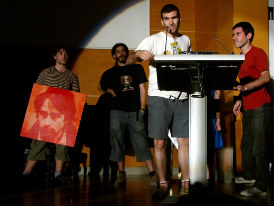 Valencian band Orxata Sound System receiving an award for his record 1.0 in València